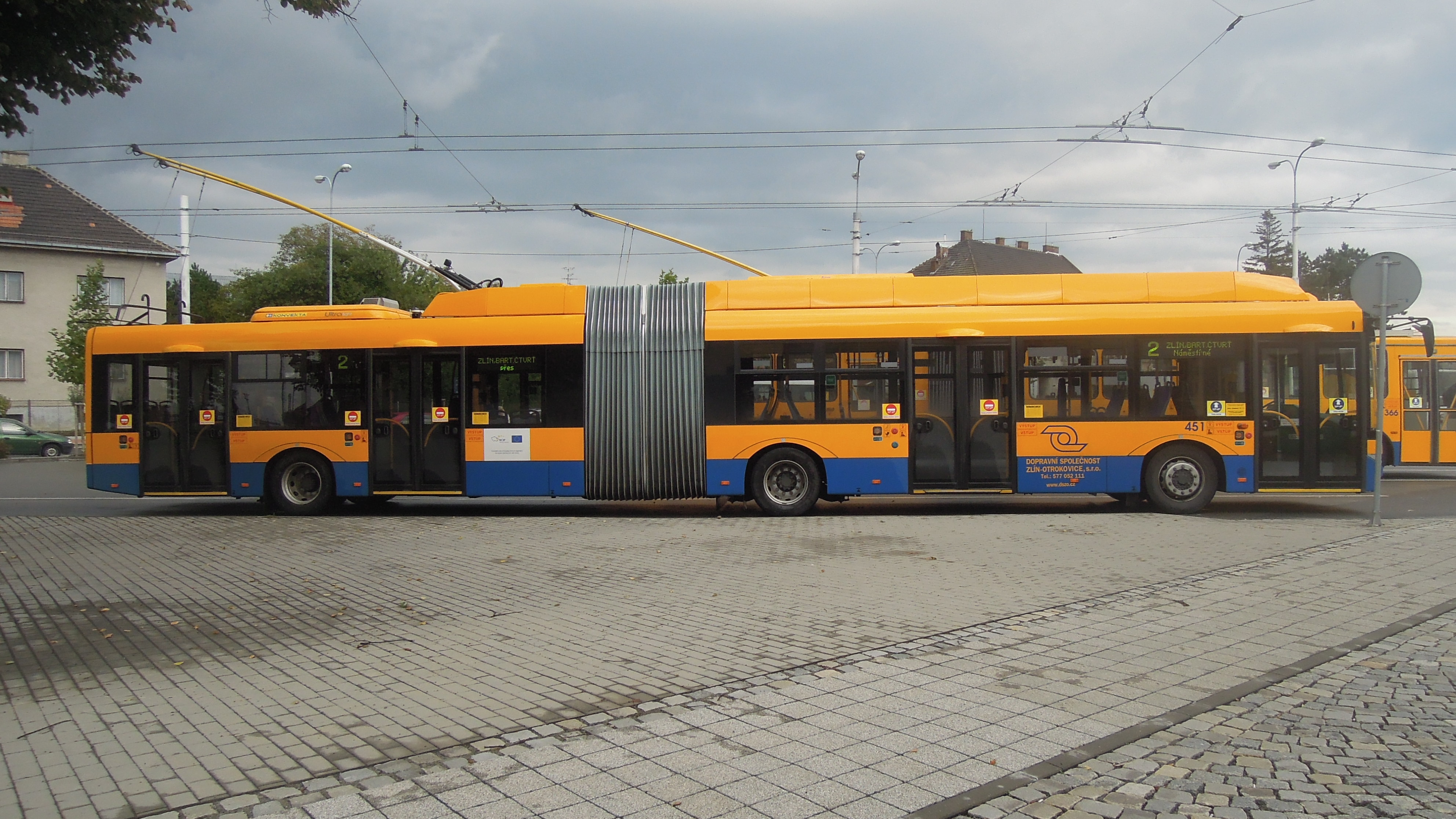 Trolleybus Škoda 27Tr Solaris of DSZO in Otrokovice , Zlín Region, Czech Republic